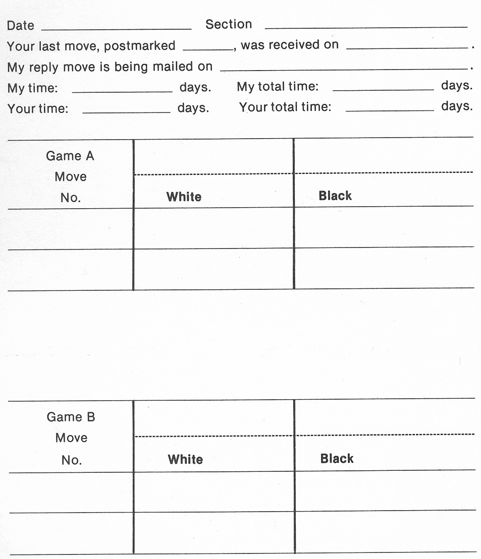 This is a trimmed image of "Back of correspondence chess card.tif" transferred from en.wikipedia to Commons by Bubba73. This work is in the public domain because it was published in the United States between 1923 and 1977 and without a copyright notice.